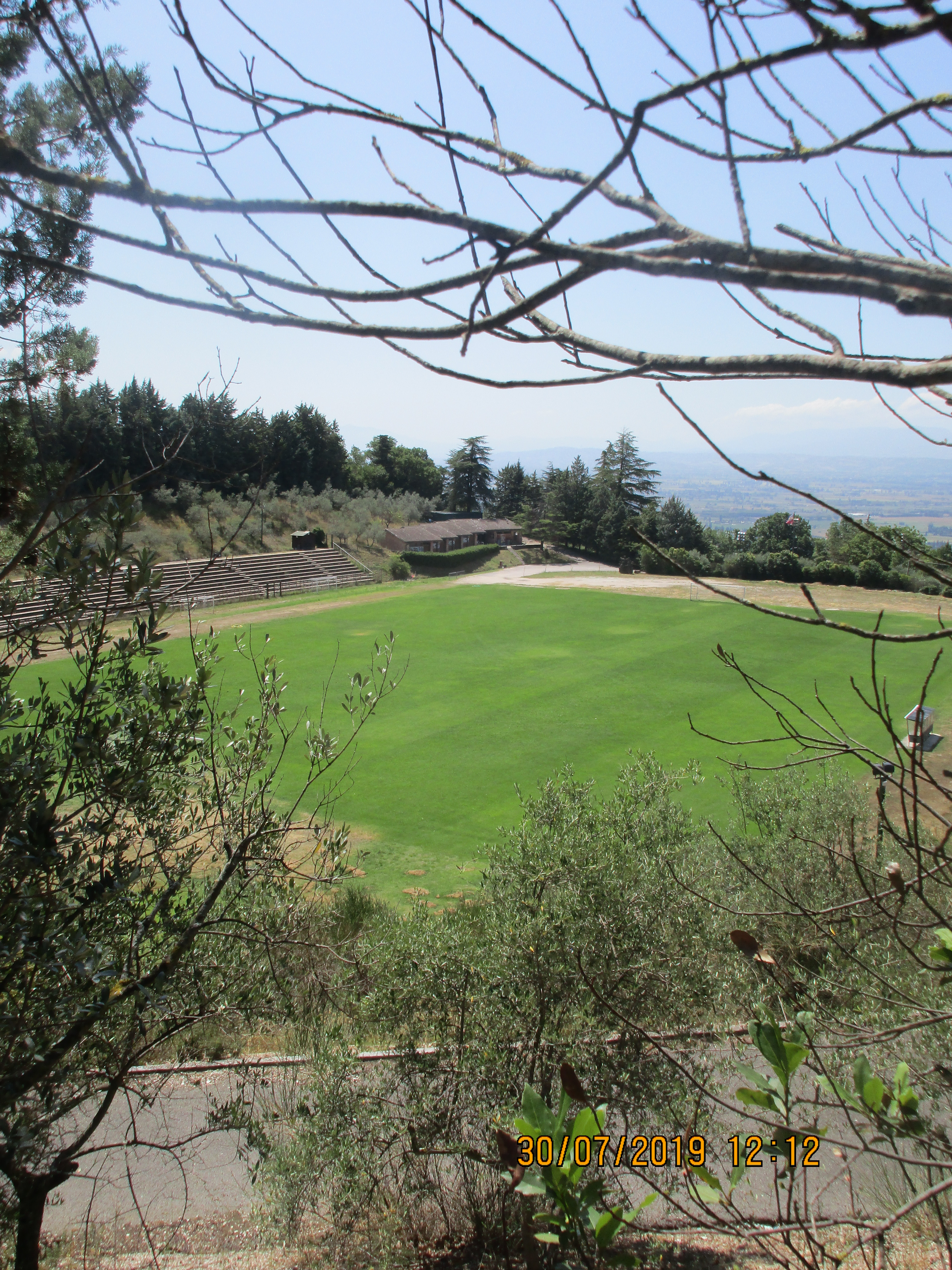 "Degli Ulivi" Stadium in Assisi (Umbria, Italy), July 30, 2019.